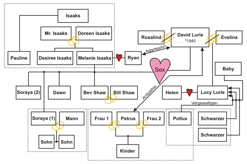 The Persons in Coetzees Book Disgrace. By Request I can change the grafik in other Languages. But at this time, I believe translations are ok